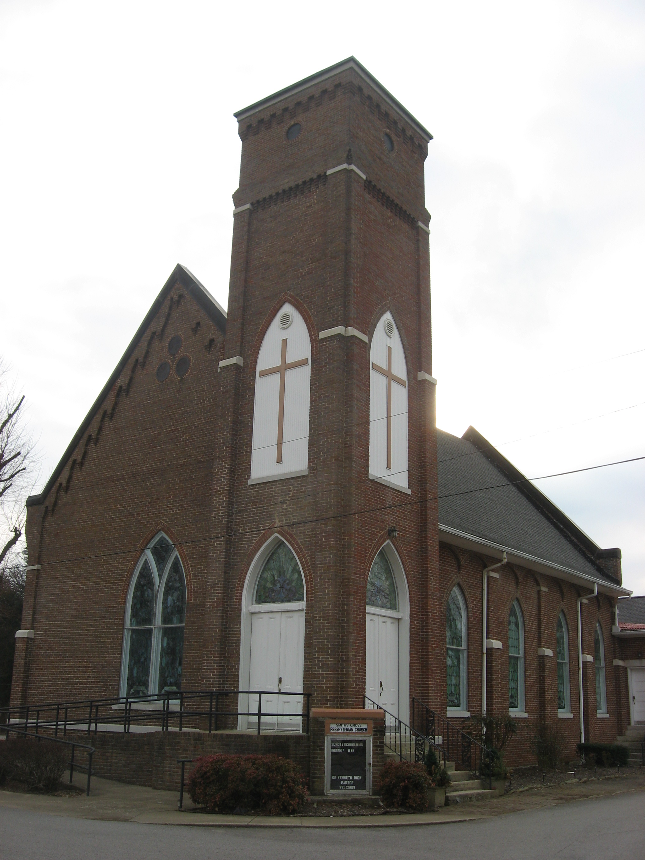 Front and northern side of the Smiths Grove Presbyterian Church, located on the southwestern corner of the junction of College and Second Streets in Smiths Grove, Kentucky, United States. Built in 1900, it is listed on the National Register of Historic Places.